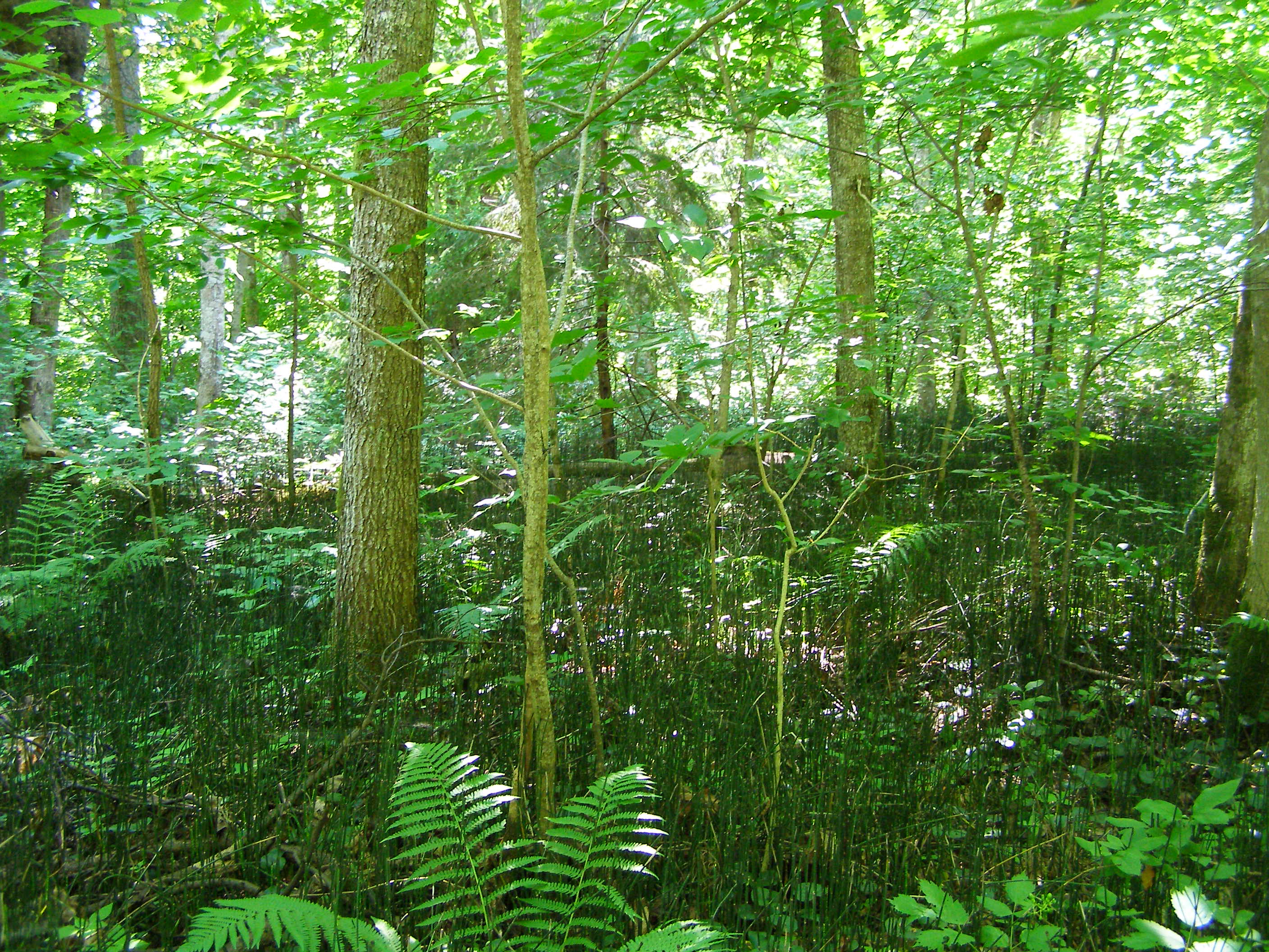 Gauja National Park, Latvia